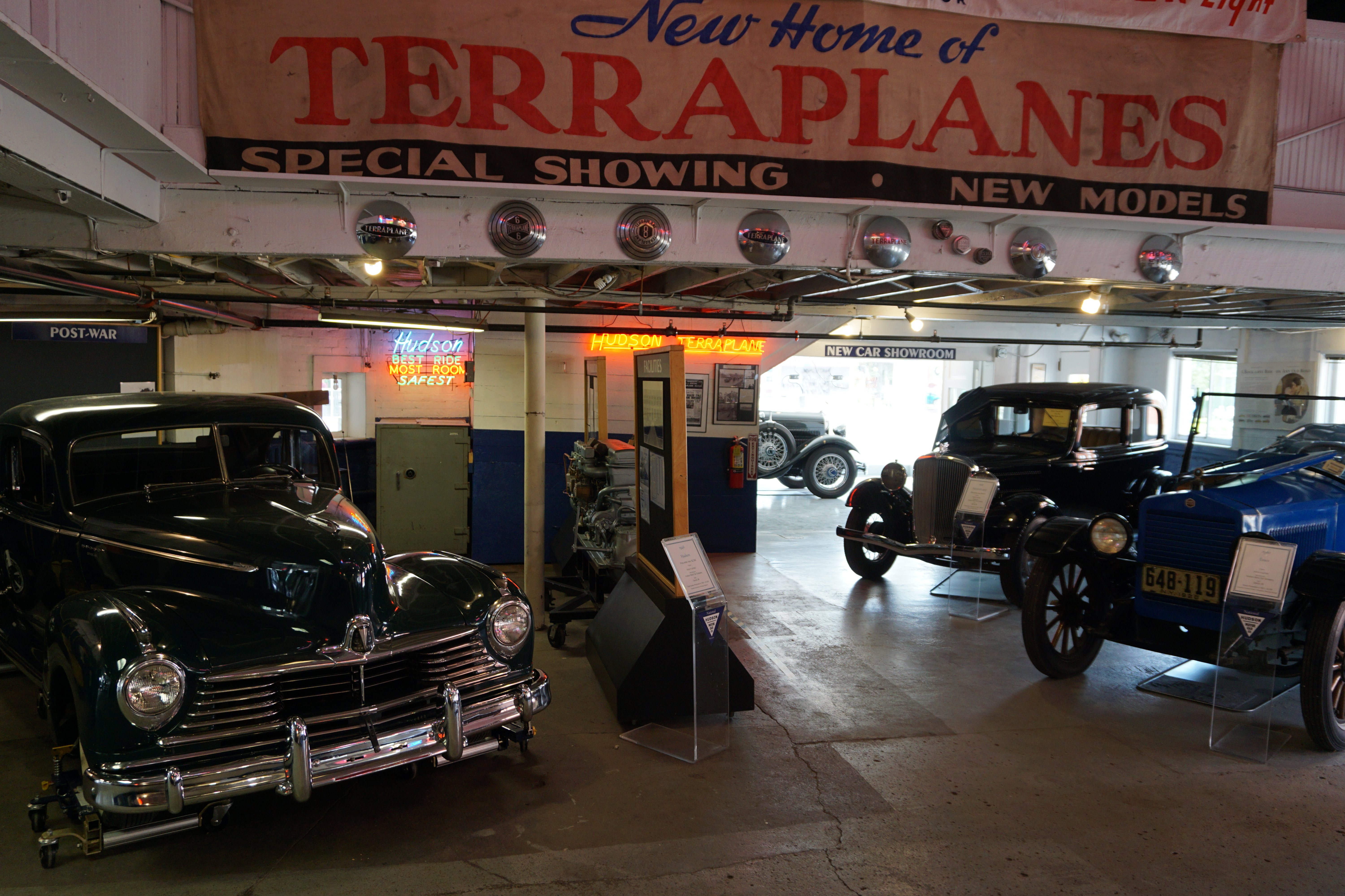 The interior of the Ypsilanti Automotive Heritage Museum in Ypsilanti, Michigan (United States).